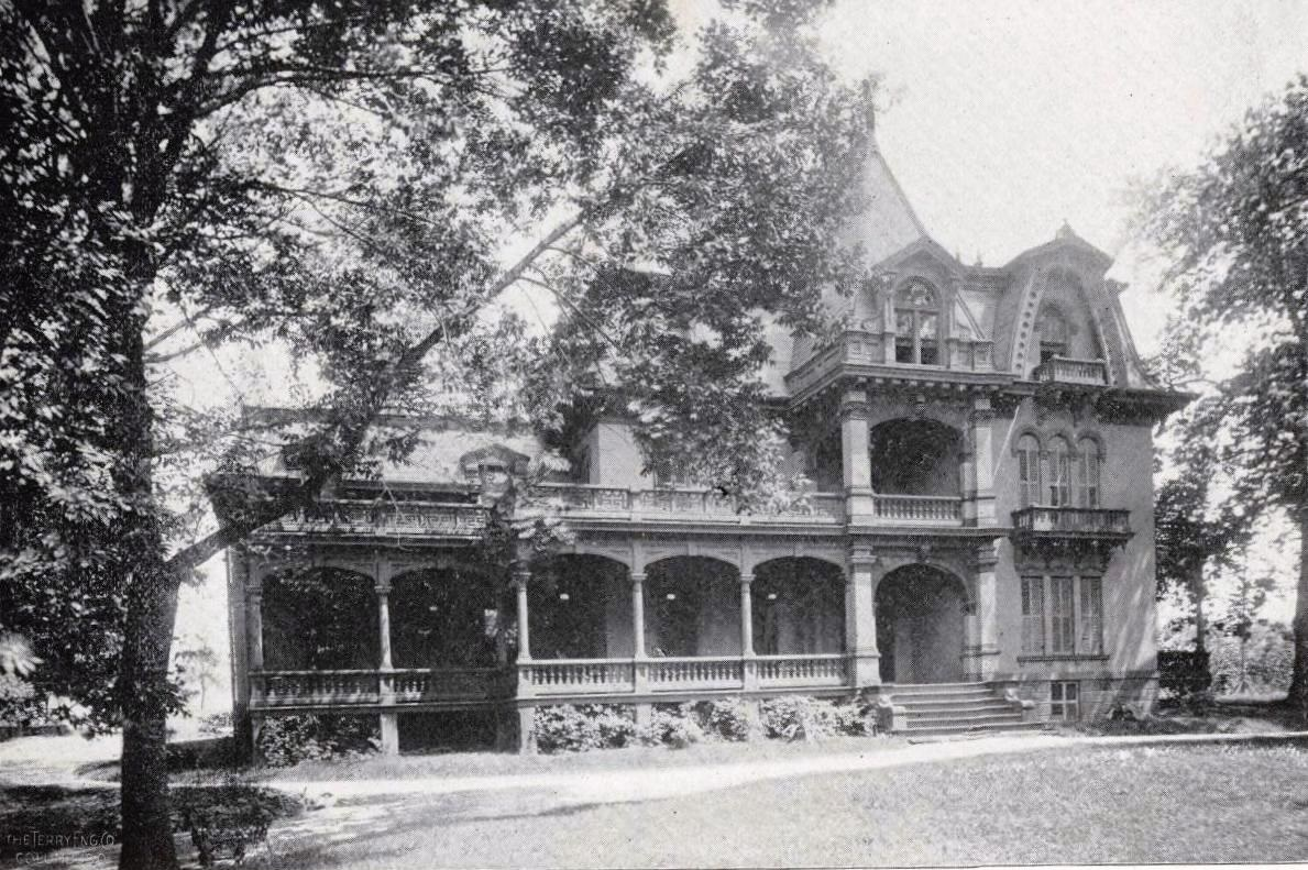 Home of Senator John Sherman (1823-1900) in Mansfield, Ohio. Formerly located on Park Avenue West in Mansfield, between Sycamore and Penn. Demolished 1903.